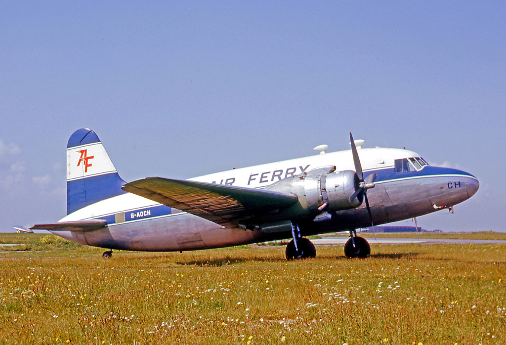 Vickers 621 Viking C.2 G-AOCH of Air Ferry at Manston Airport Kent in 1965